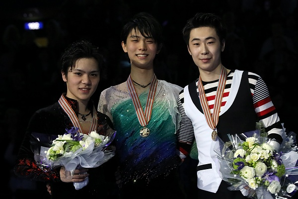 The Men's podium at the 2017 World Championships.From left: Shoma Uno (2nd), Yuzuru Hanyu (1st), Jin Boyang (3rd).